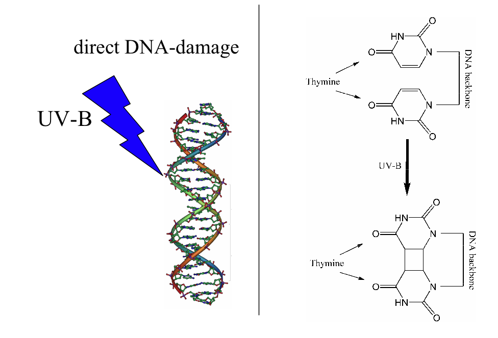 Direct DNA damage: The UV-photon is directly absorbed by the DNA (left). One of the possible reactions from the excited state is the formation of a thymine-thymine cyclobutane dimer (right). The direct DNA damage leads to sunburn and it causes an increase in melanin production. Thereby it leads to a long-lasting tan. Note: please be aware these are not thymine bases, they are uracil (RNA equivalent) and as such are missing the 5-methyl group (cf.